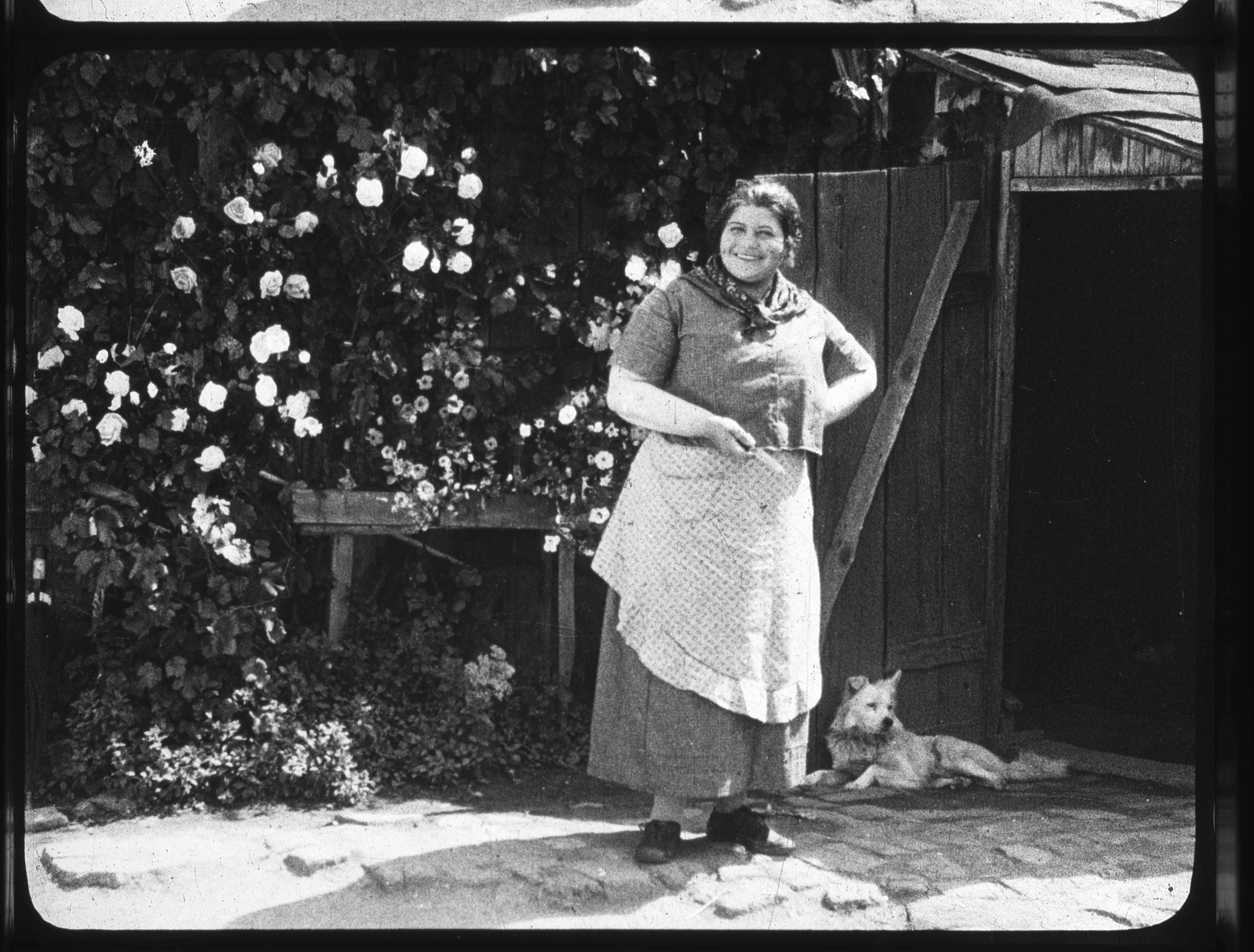 Antonie Nedošinská on a film shot from an unidentified movie.